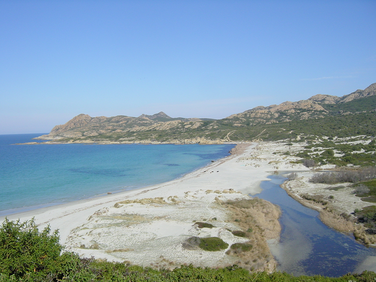 Beach of Ostriconi in North of Corsica (France)